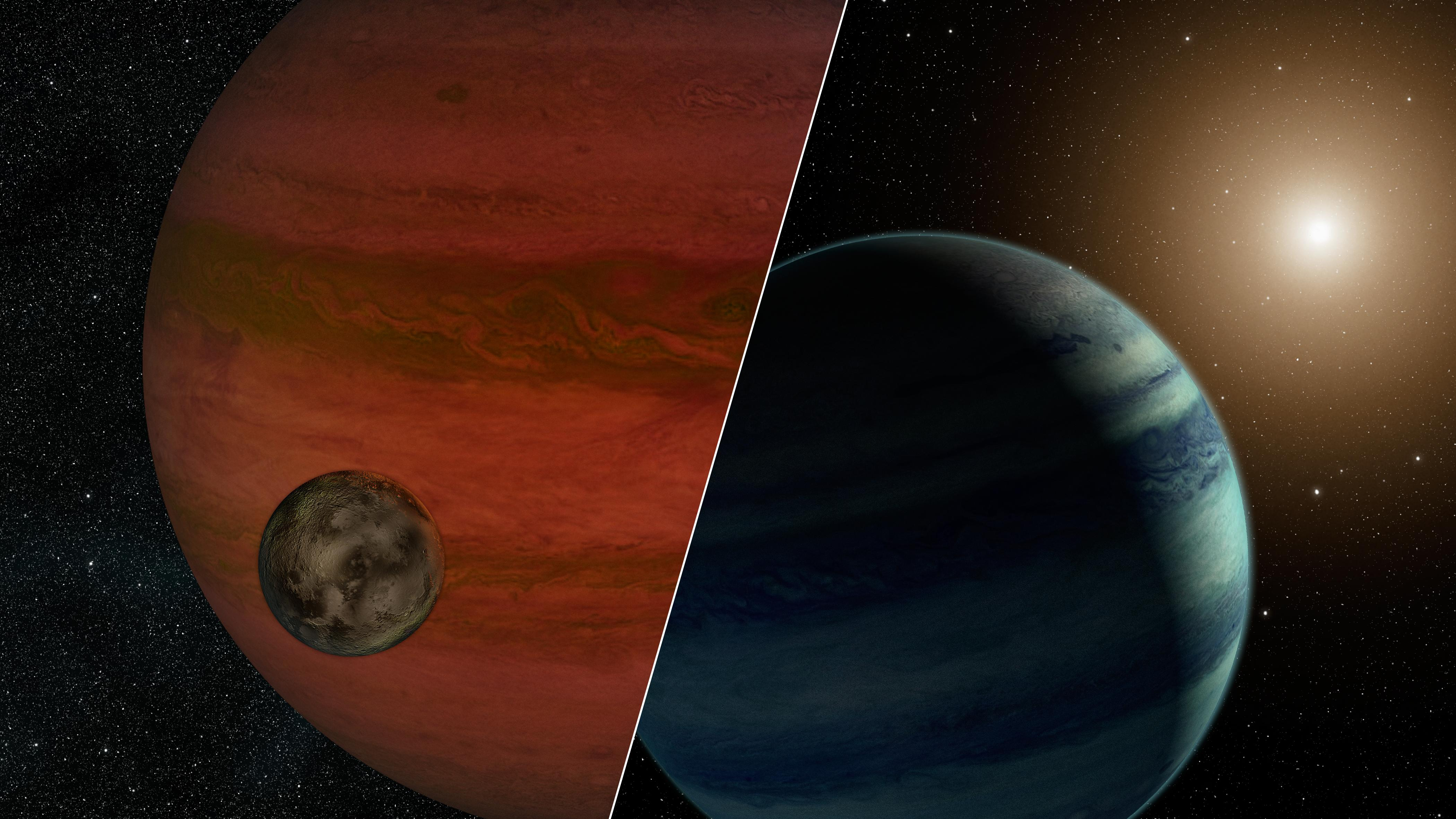 Moon or Planet? The 'Exomoon Hunt' Continues (Artist's Concept) Researchers have detected the first "exomoon" candidate -- a moon orbiting a planet that lies outside our solar system. Using a technique called "microlensing," they observed what could be either a moon and a planet -- or a planet and a star. This artist's conception depicts the two possibilities, with the planet/moon pairing on the left, and star/planet on the right. If the moon scenario is true, the moon would weigh less than Earth, and the planet would be more massive than Jupiter. The scientists can't confirm the results partly because microlensing events happen once, due to chance encounters. The events occur when a star or planet happens to pass in front of a more distant star, causing the distant star to brighten. If the passing object has a companion -- either a planet or moon -- it will alter the brightening effect. Once the event is over, it is possible to study the passing object on its own. But the results would still not be able to distinguish between a planet/moon duo and a faint star/planet. Both pairings would be too dim to be seen. In the future, it may be possible to enlist the help of multiple telescopes to watch a lensing event as it occurs, and confirm the presence of exomoons. More information about exoplanets and NASA's planet-finding program is at